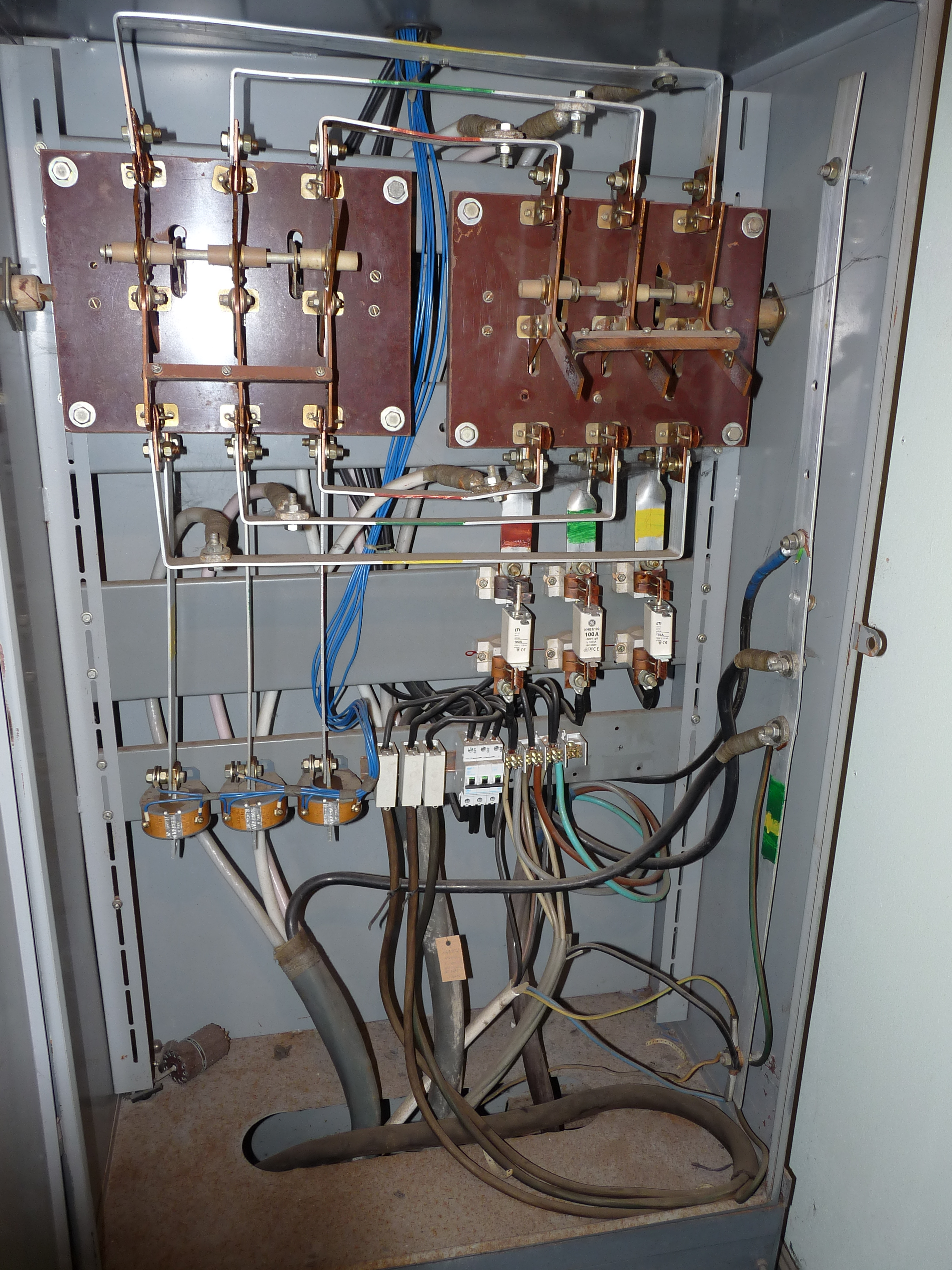 Fuse box saved from Soviet times